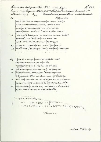 Uncial 0183 (Gregory-Aland) manuscript of the New Testament from the 7th century in Carl Wessely's facsimile (1912)